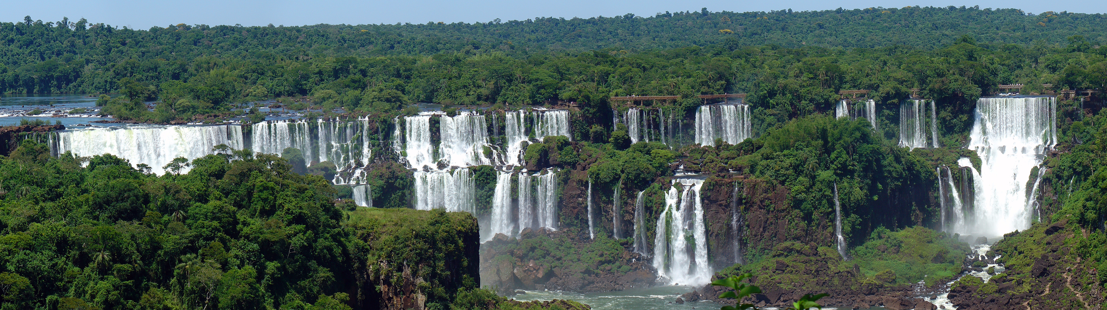 Please, have this description accessible to all by translating it in different languages.